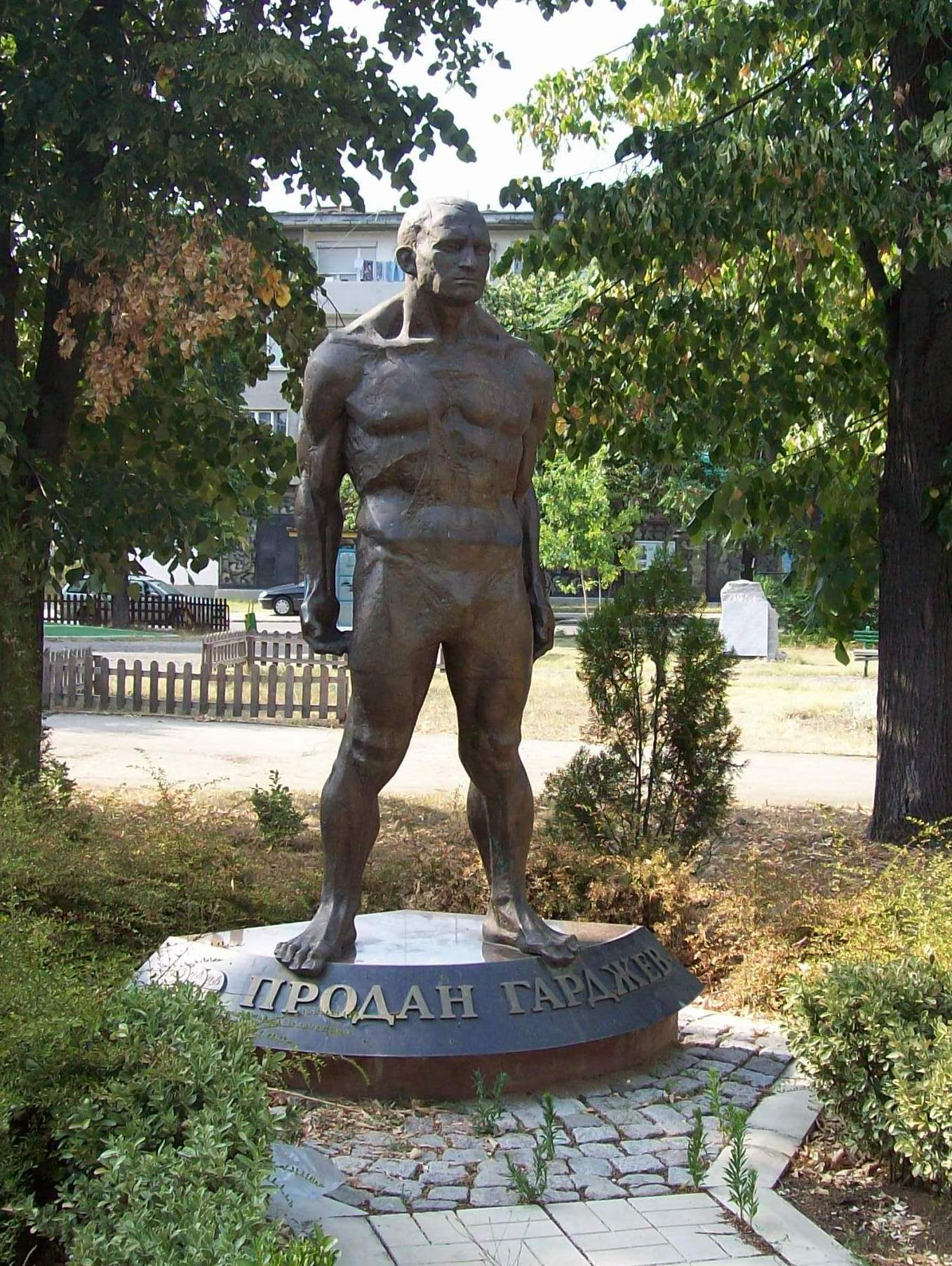 Prodan Gardzhev Monument, Sredets, Bulgaria